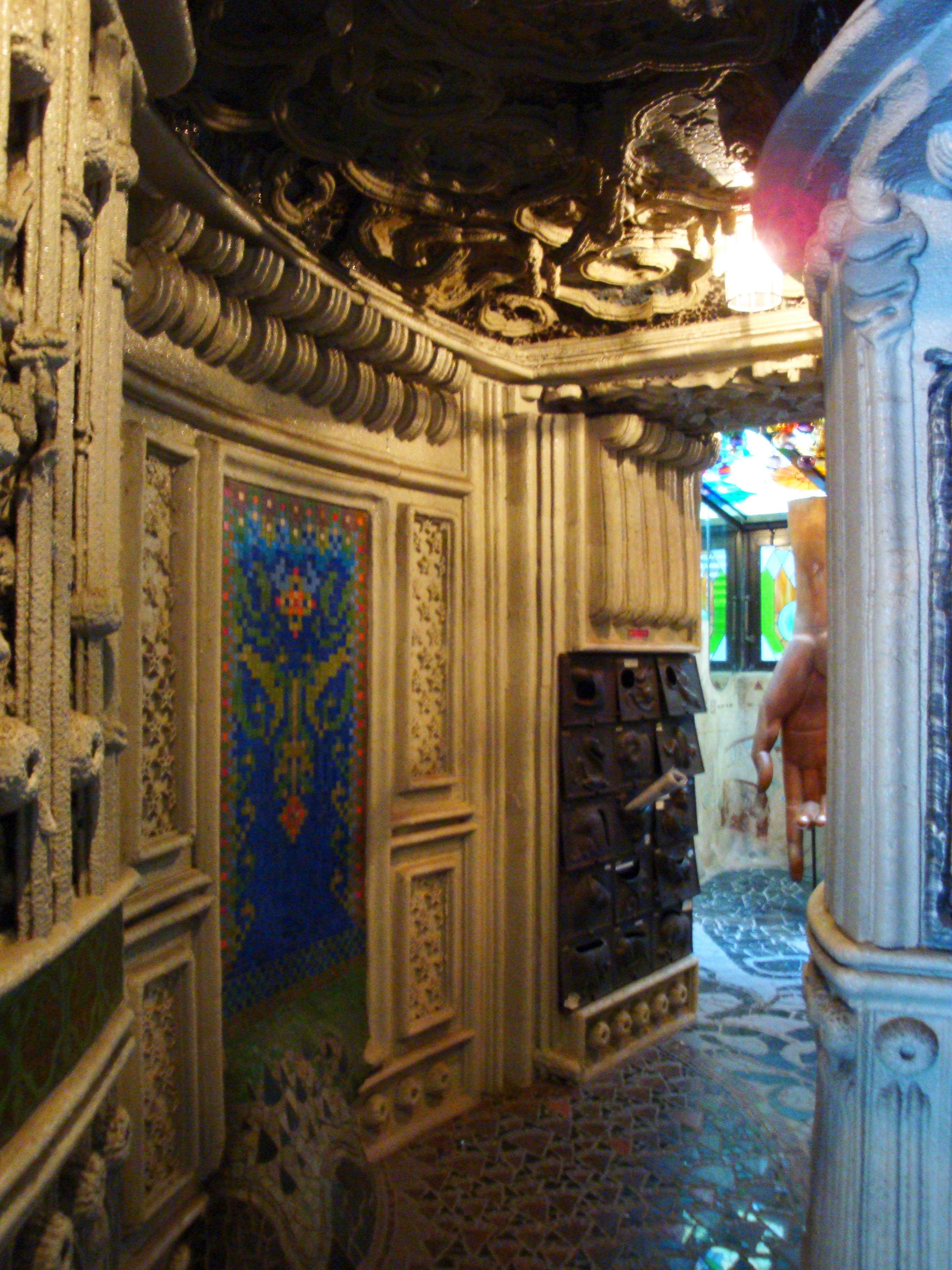 "Waseda El Dorado" Building by Von Jour Caux (Toshiro Tanaka), near the Waseda University Campus, Shinjuku, Tokyo. Corridor.